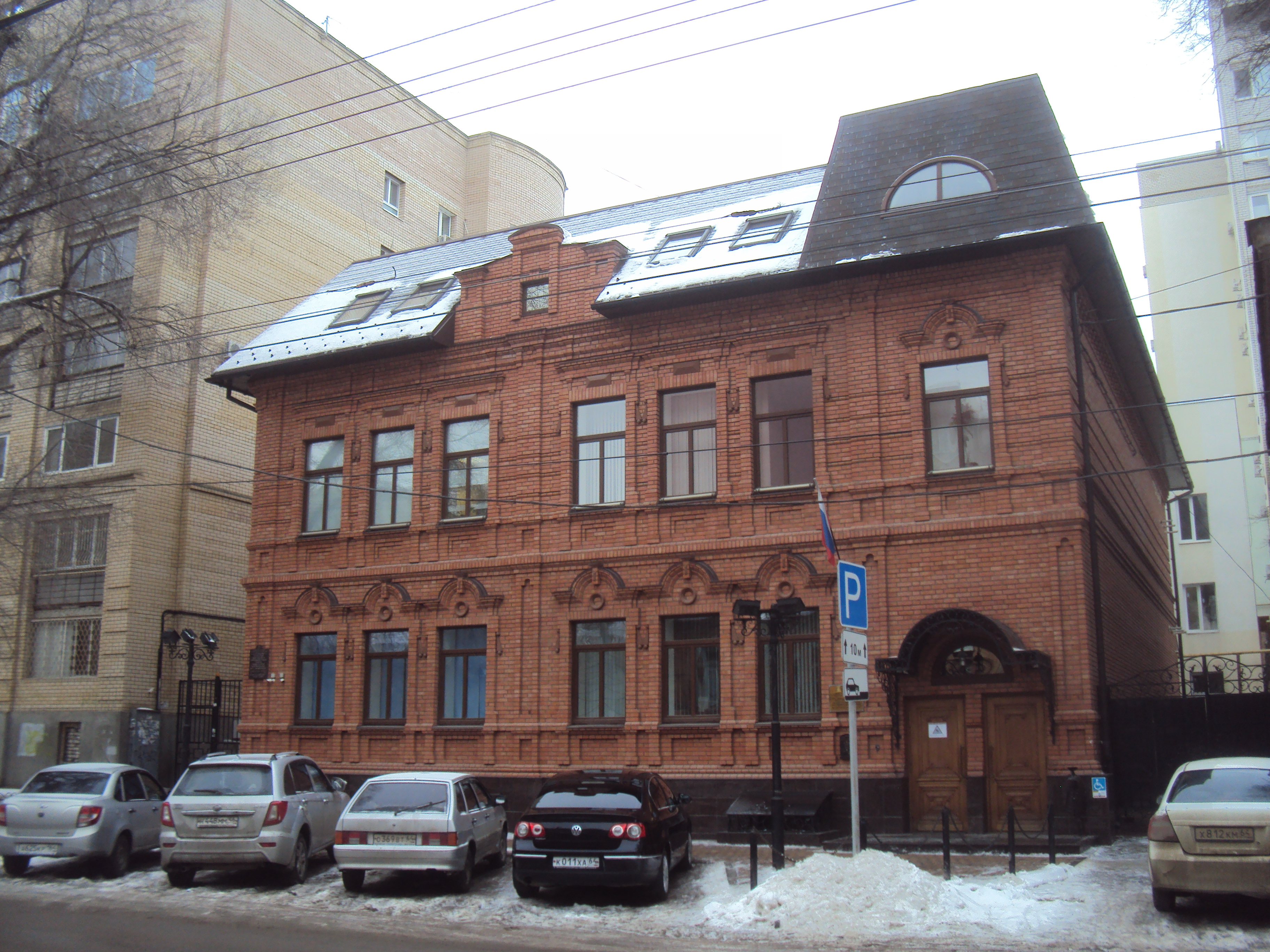 The house in which he lived, a prominent party figure Olminsky